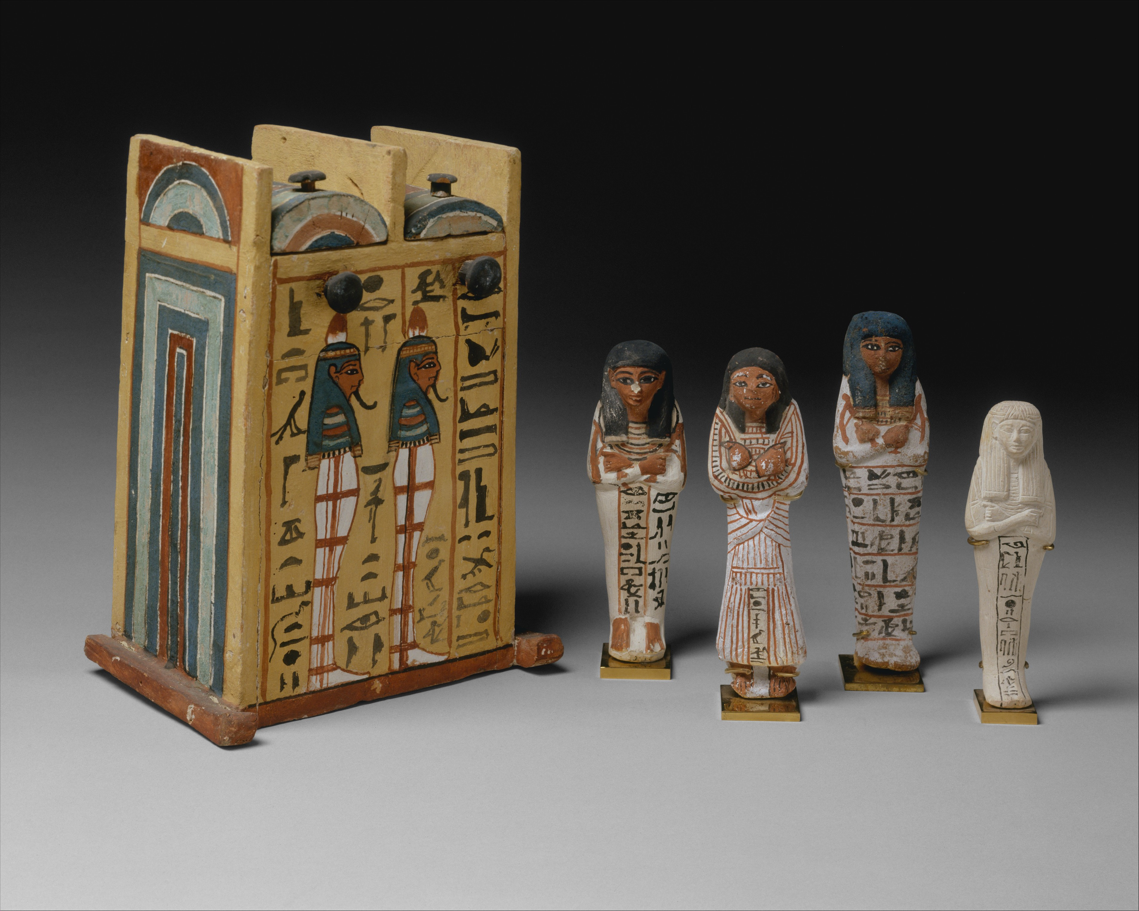 Shabti, Khabekhnet, Iineferty